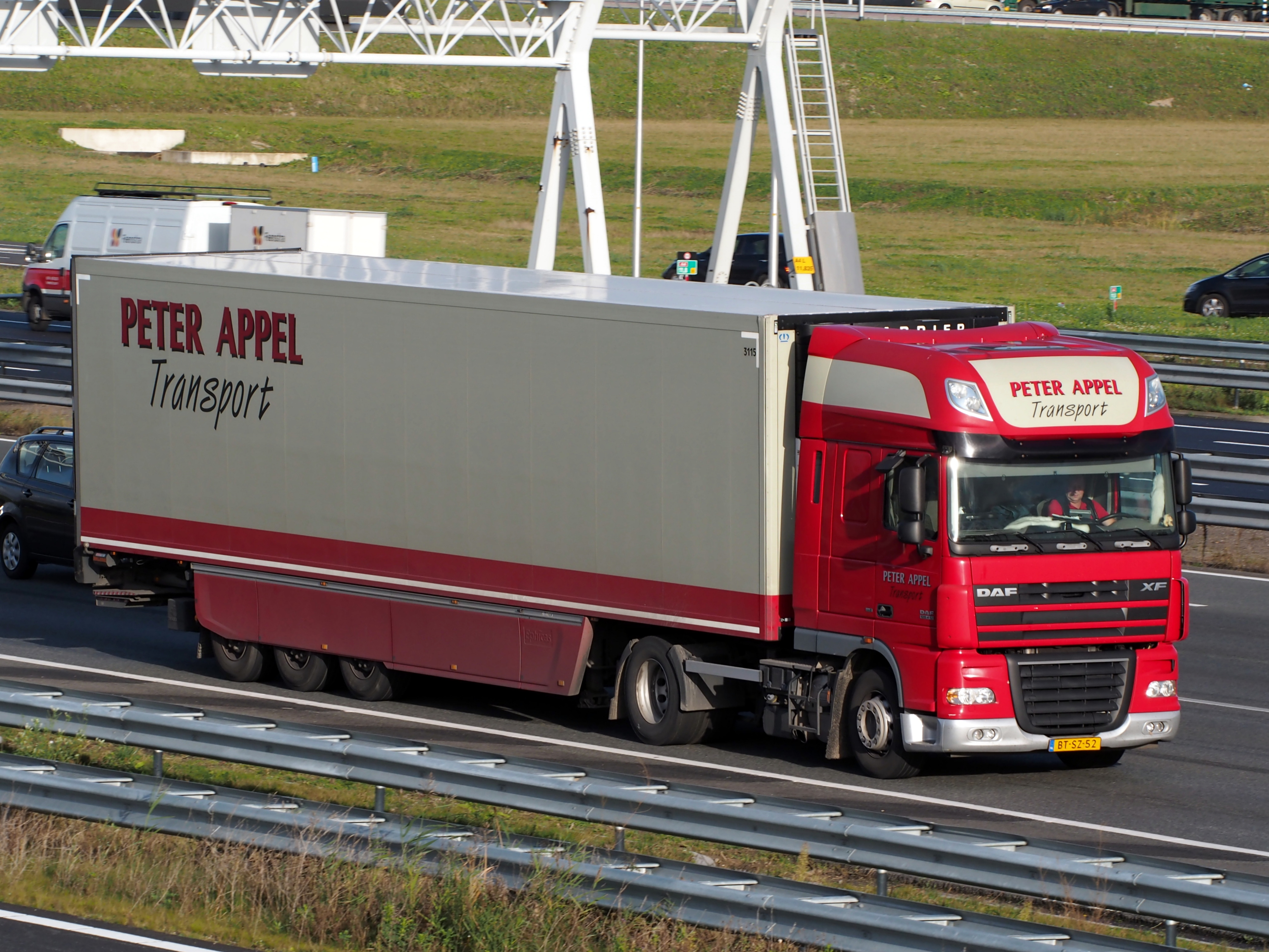 Photographed on the A4 motorway near Hoofddorp, The Netherlands.